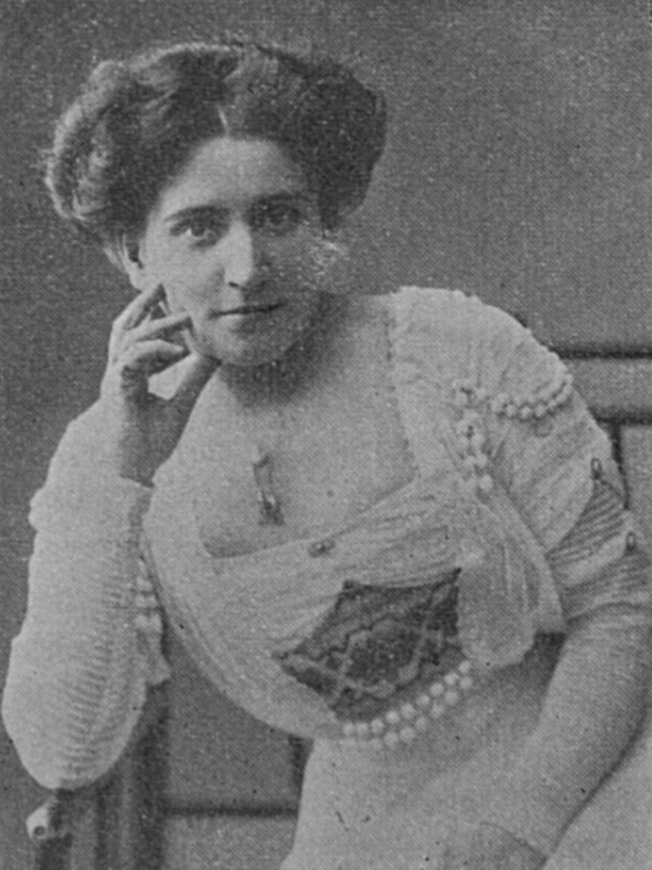 The Finnish opera singer Agnes Poschner (1880-1935), picture from cirka 1911